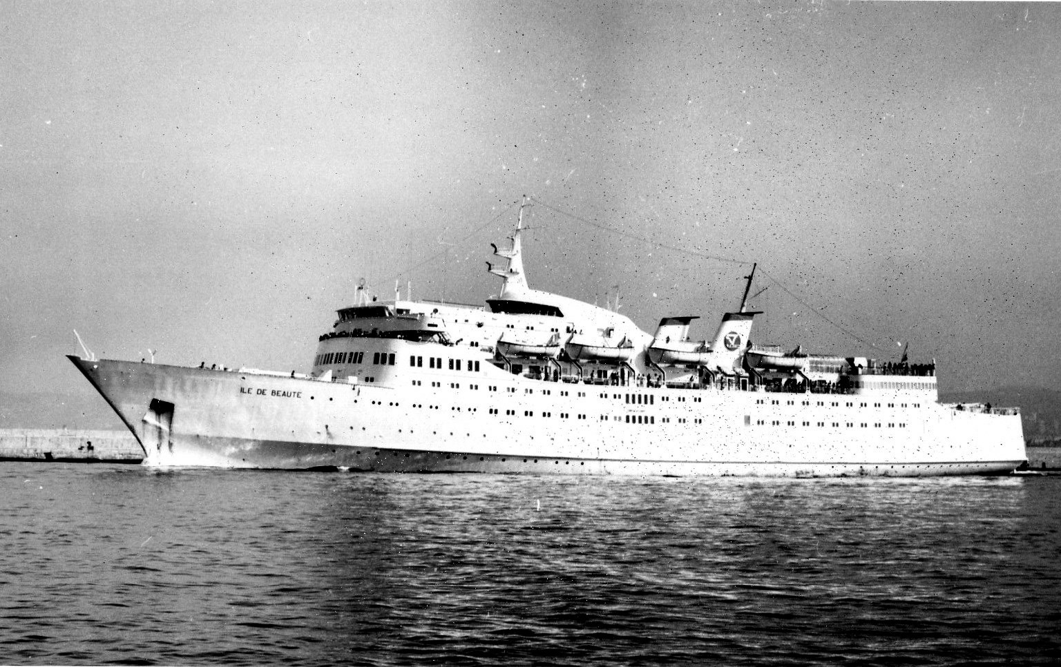 MS "Ile de Beaute", ex-"Sunward" in Marseilles (1976)